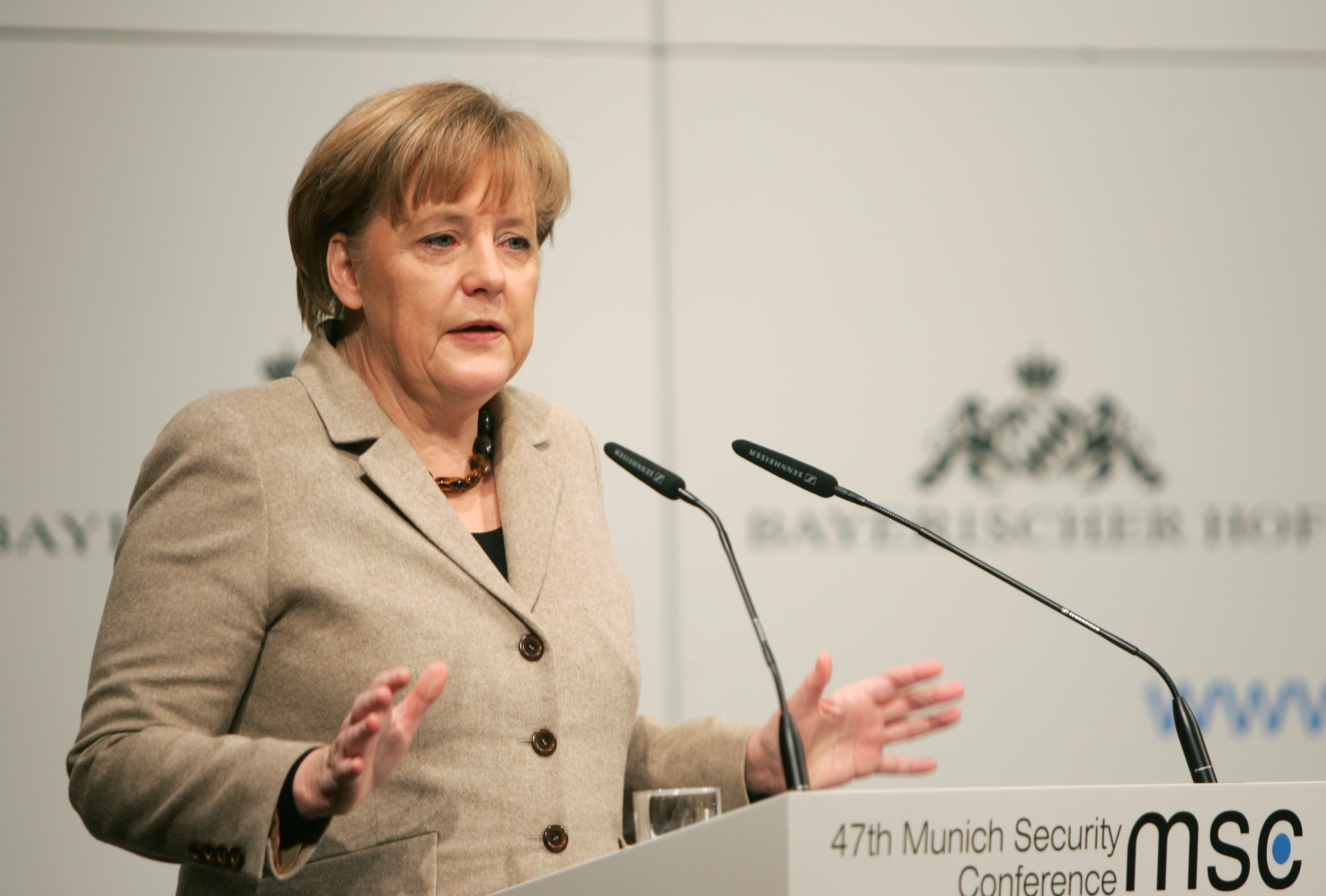 47th Munich Security Conference 2011: Dr. Angela Merkel, Federal Chancellor, Germany, on Saturday morning.